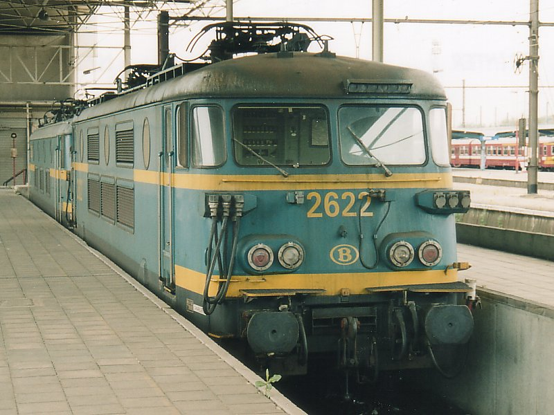 SNCB locomotive 2622 at Mons station